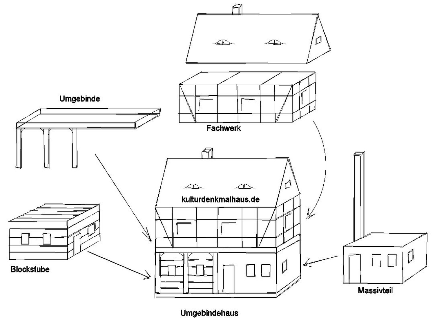 emergence sketch